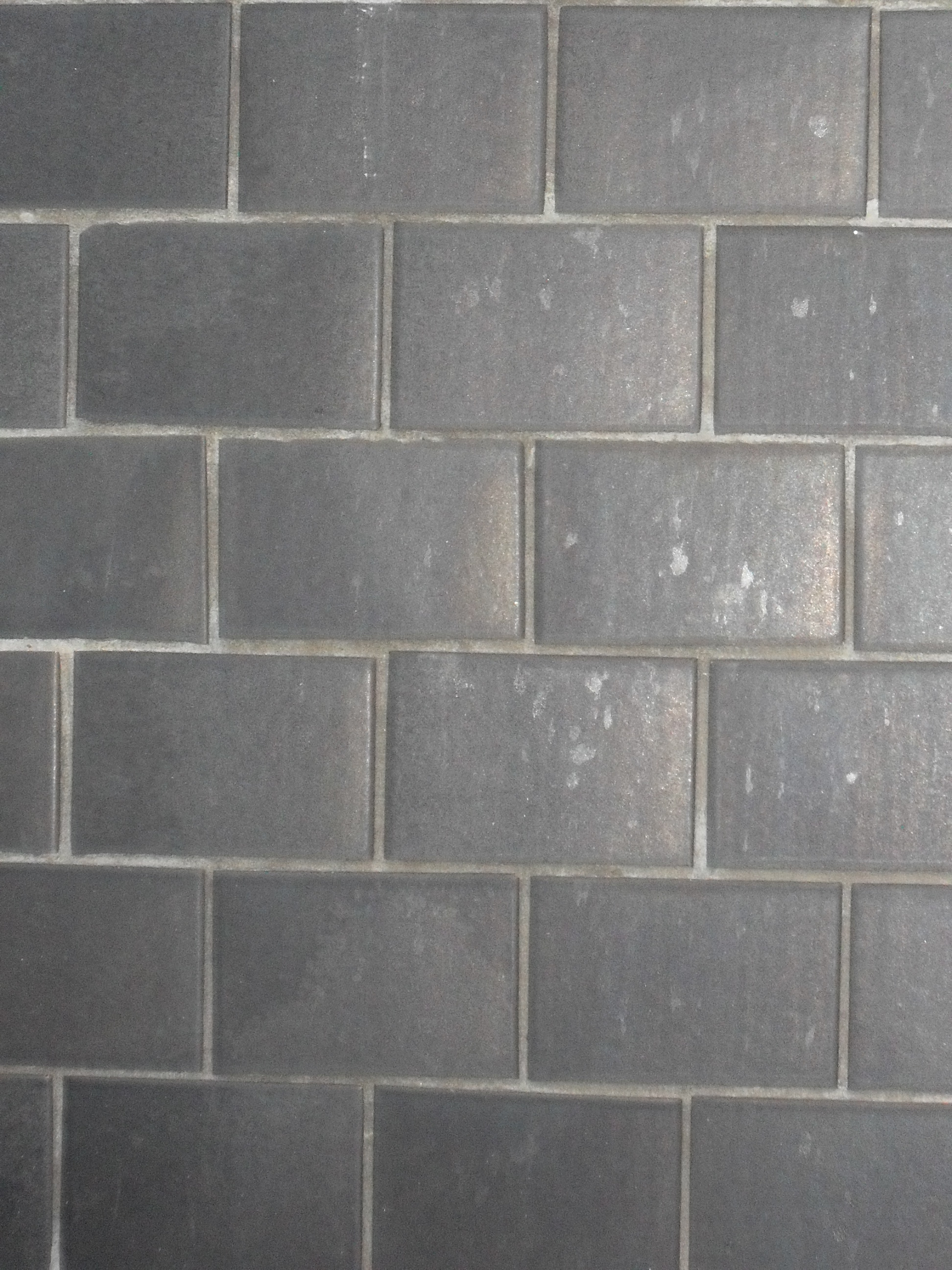 Close-up of modern replacement black glazed mathematical tiles on the façade of 44 Old Steine, Brighton, England—an 18th-century building. These tiles, which resemble (much nicer original black tiles) brick, were popular in Brighton in the late 18th century.